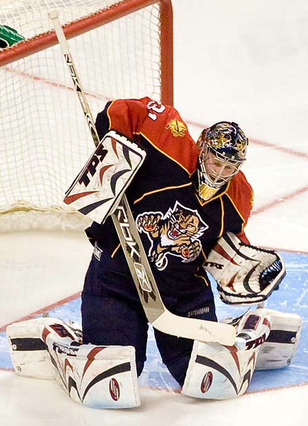 Pittsburgh Penguins vs. Florida Panthers